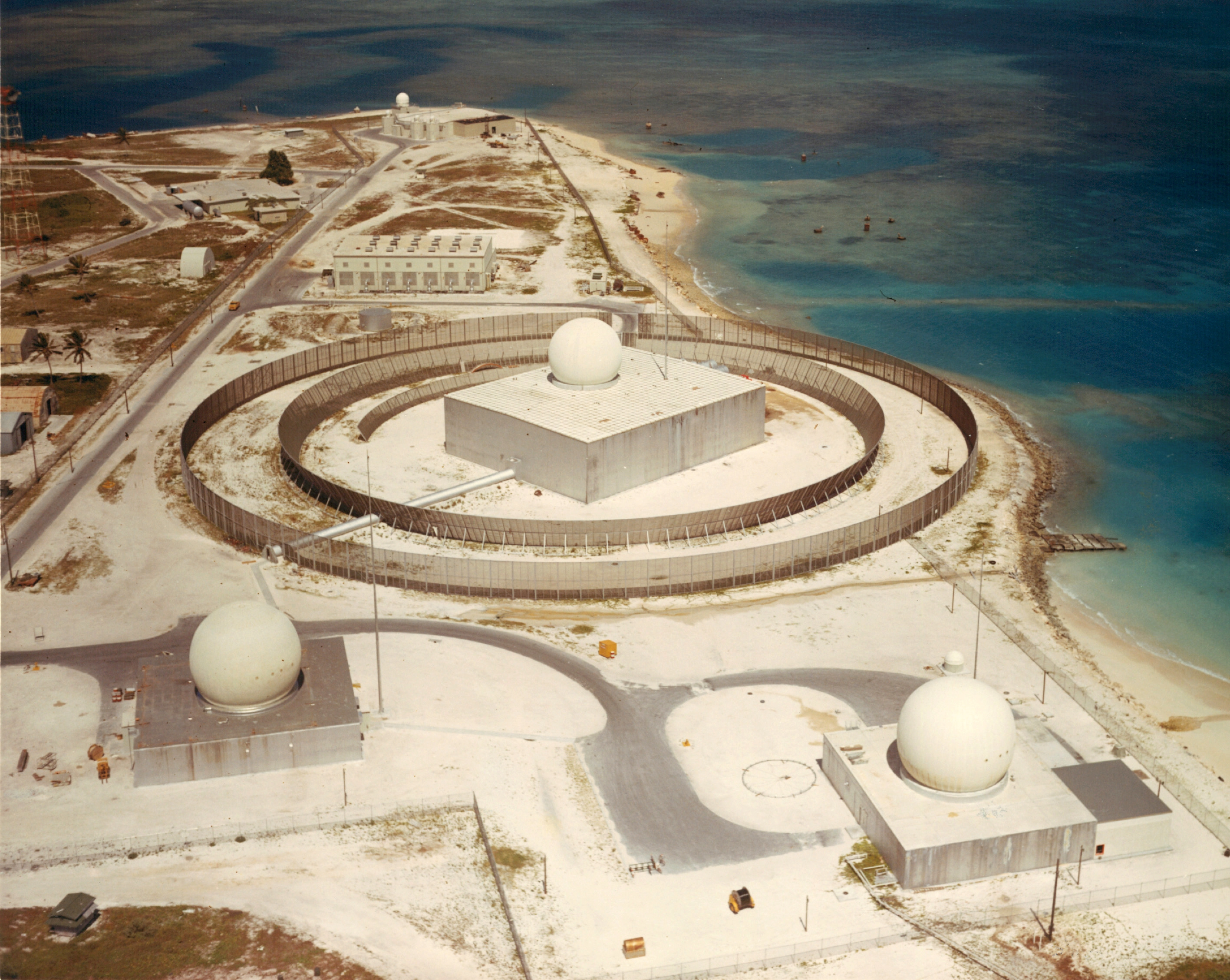 Tracking radars for the Nike Zeus anti-ballistic missile program on Kwajalein, Marshall Islands. Closest to the camera are two Target Tracking Radars (TTR). The raised radome centred in the Zeus Discrimination Radar (ZDR or DDR). Note the metal tunnel running between the ZDR building and the outermost fencing, which provided protected access to the radar while it was operating. The power of the ZDR presented a serious physical risk, which was mitigated using the reflective fencing. The Missile Tracking Radars (MTR) are located on the building in the distant background, although they are only just visible in this image (when zoomed in). The small radome beside the same building is not identified. Just behind the ZDR is a power plant which runs the entire system. The red and white tower on the extreme left was used to optically compare the MTR tracks to the target for bore sighting.